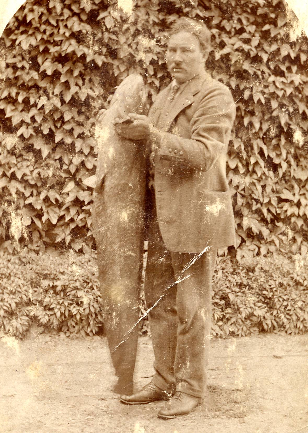 Catfish caught in the lake of Millstatt district Spittal an der Drau in Carinthia / Austria / EU. In the background, the wall at Laggerhof. Unlike the guard maintenance, the fish from the fishermen in their Sunday clothes and presented vertically.